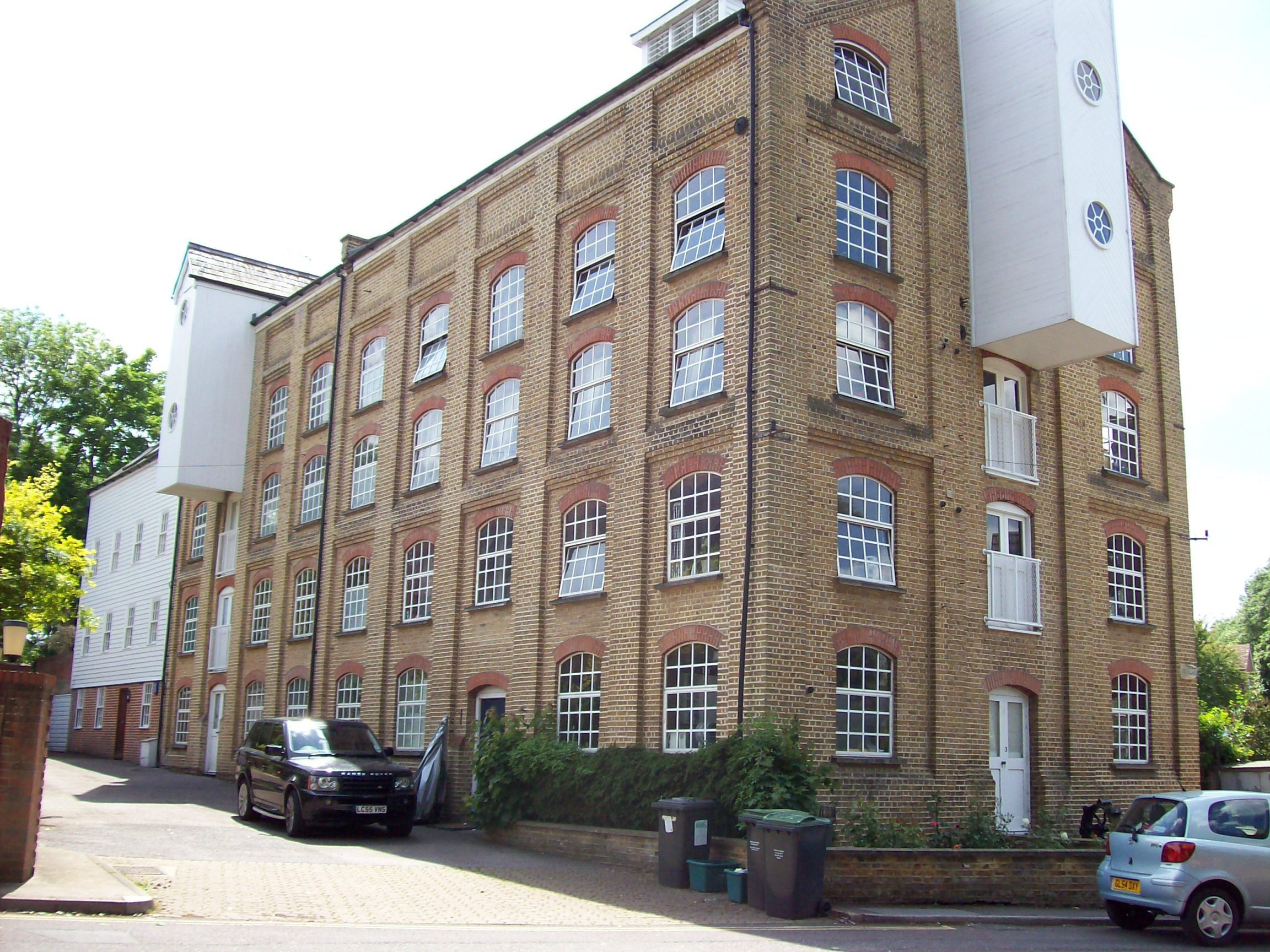 A photograph of Weir Mill, East Malling